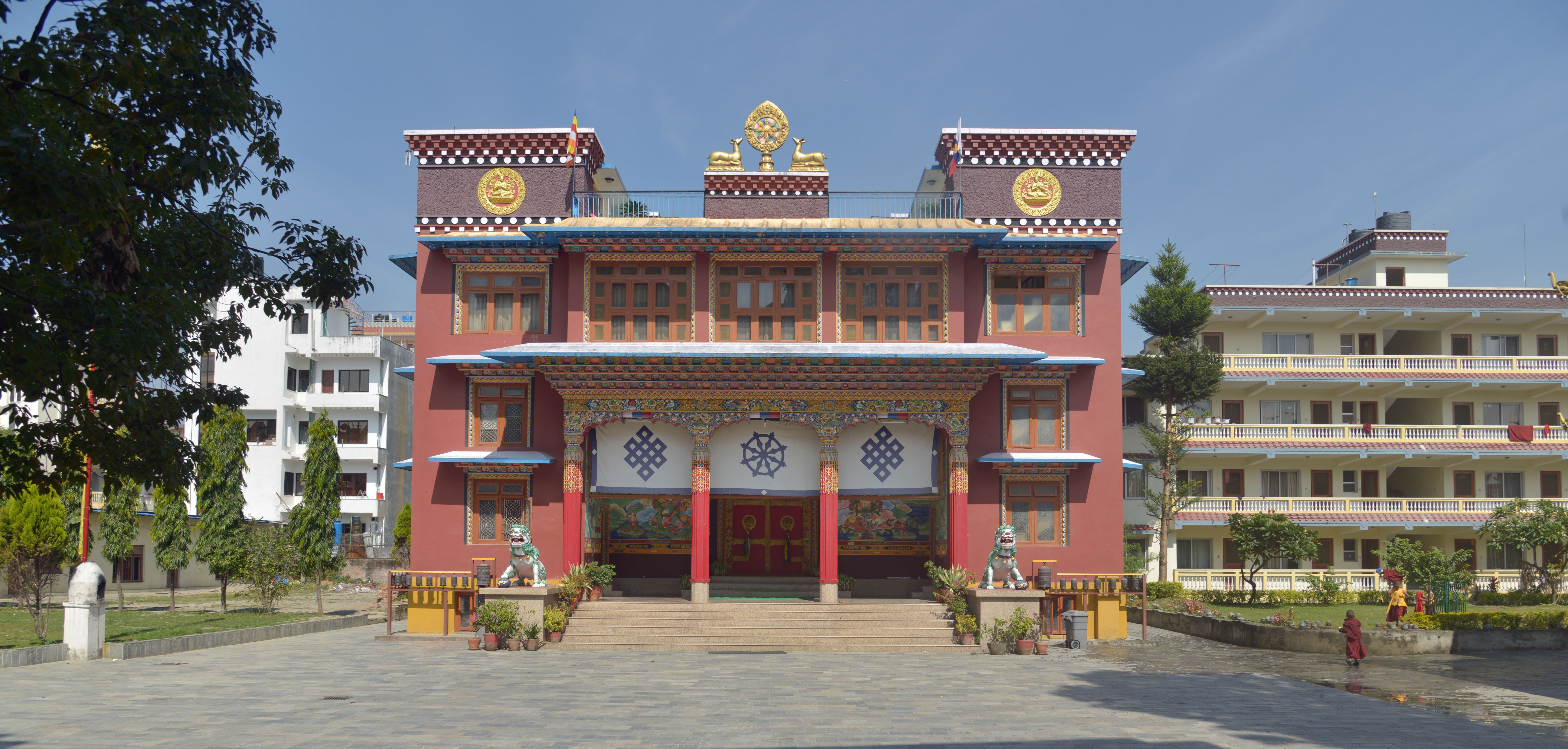 Tharlam Monastery, Bodhanath